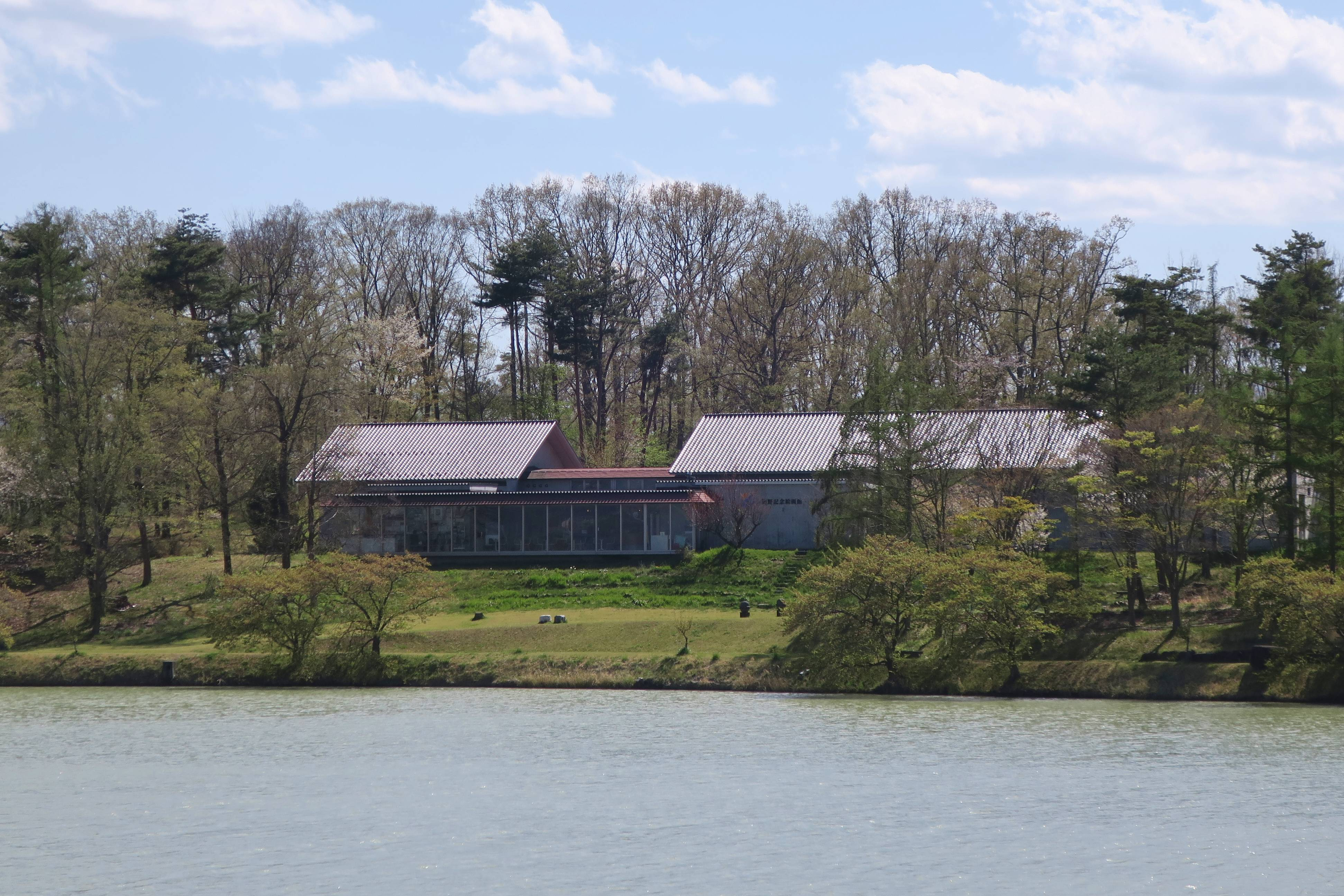 Umeno Memorial Picture Gallery · Fureai Hall and Myōjin Pond (Tōmi, Nagano).